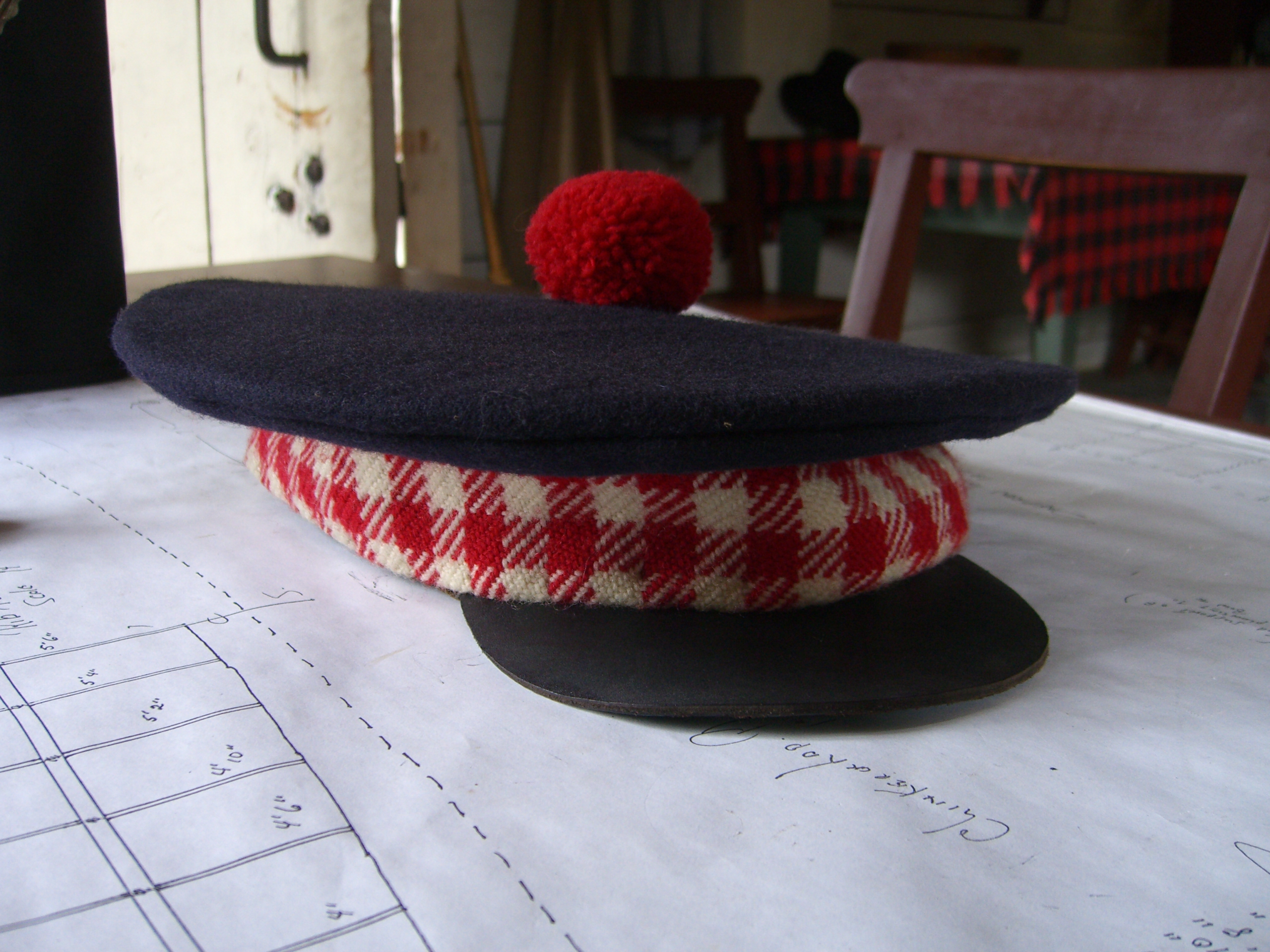 A cap inspired by the Balmoral bonnet, but featuring a rigid bill like that of a baseball cap. Taken at Fort Langley [US] National Historic Site.